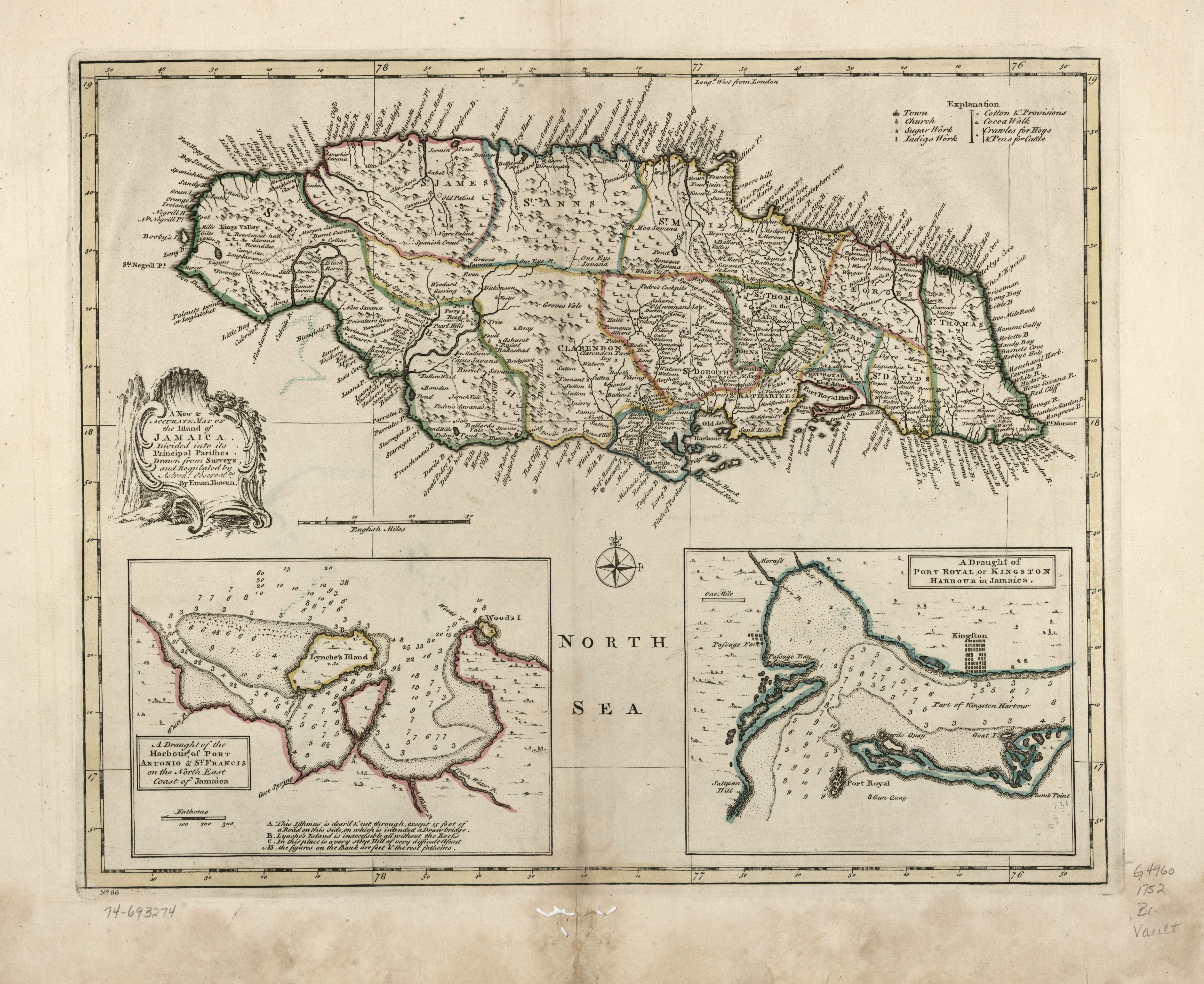 Scale ca. 1:780,000. Hand colored. Relief shown pictorially. "No. 66." From the author's A complete atlas or distinct view of the known world. 1752. LC Maps of North America, 1750-1789, 1913 Available also through the Library of Congress Web site as a raster image. Insets: A draught of the harbours of Port Antonio & St. Francis on the north east coast of Jamaica.--A draught of Port Royal, or Kingston Harbour in Jamaica. Vault AACR2